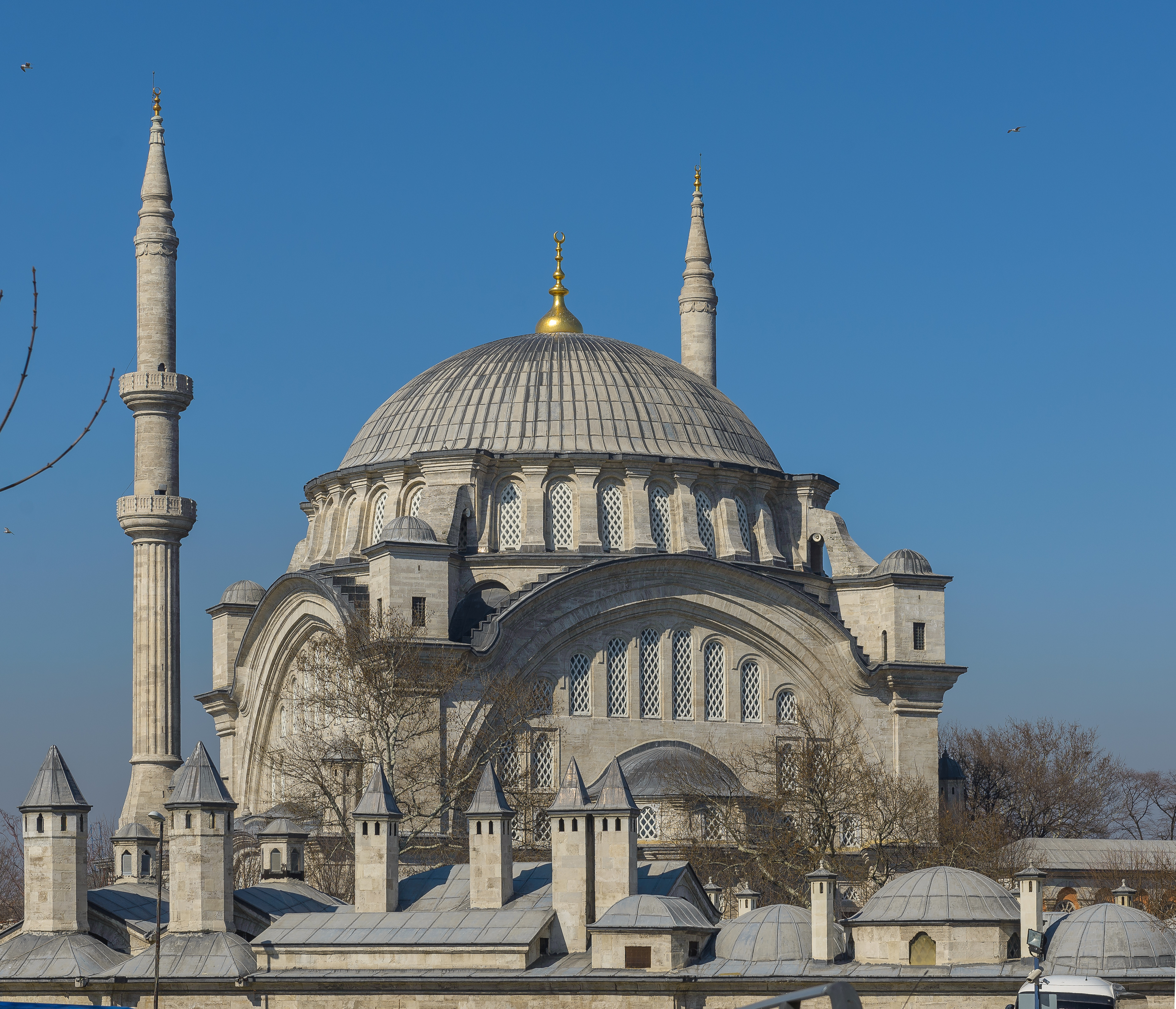 The Nuruosmaniye Mosque (Turkish: Nuruosmaniye Camii) is an Ottoman mosque located in the Çemberlitaş neighbourhood of Fatih district in Istanbul, Turkey. It is considered one of the finest examples of mosques in Ottoman Baroque style. Architects: Mustafa Ağa, Simon Kalfa.Completed 1755. In the foreground of the building, the roof of soup-kitchen (left) and madrasa (right). Both a part of the Nuruosmaniye Complex.